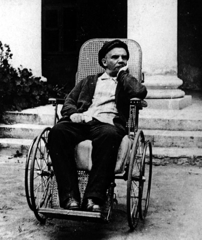 V.I. Lenin in Gorki after suffering a third stroke.